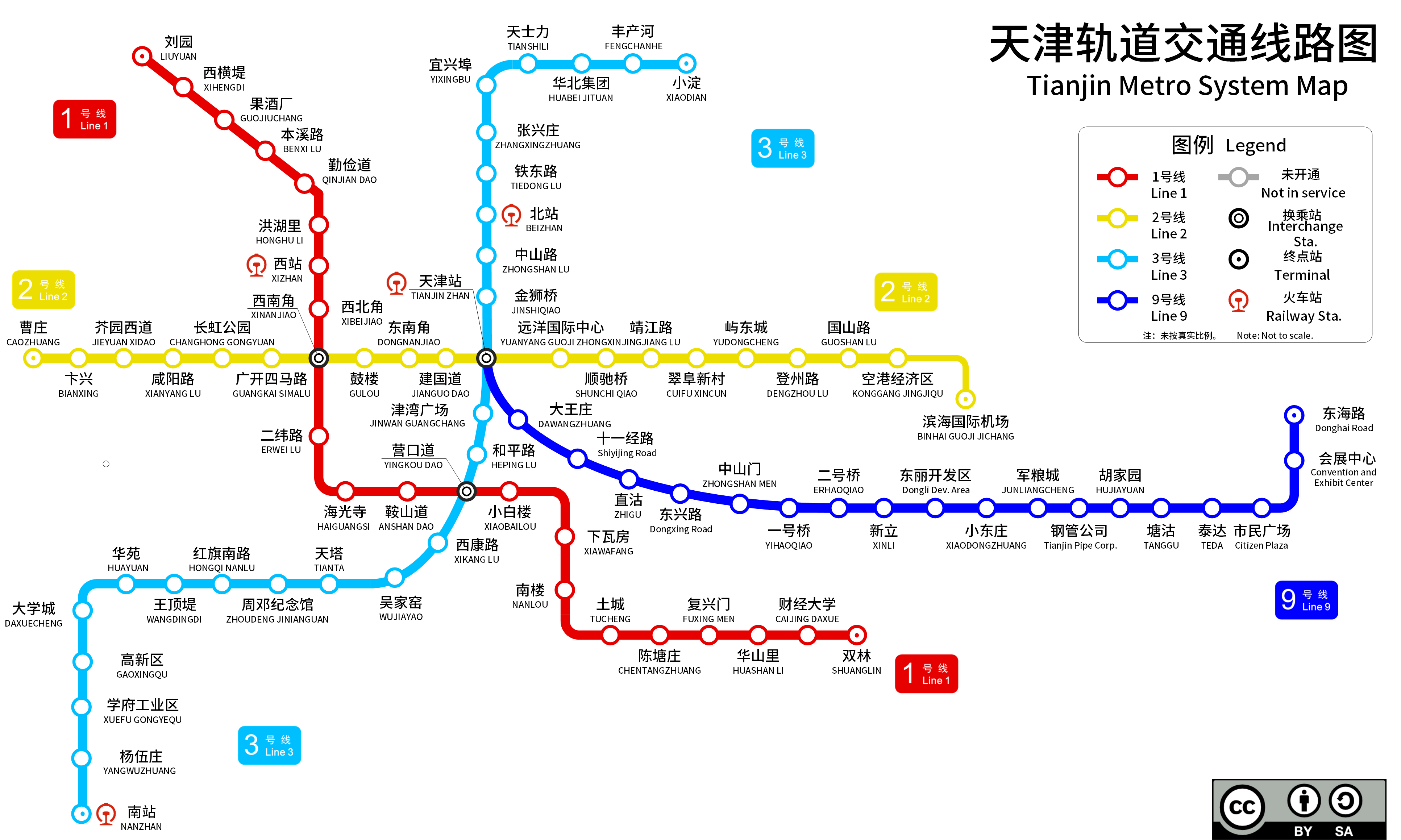 This is a map of the Tianjin Metro system (as of Oct, 2012). An alternative edition for File:Tianjin_Metro_System_Map.png. The only difference is Line 9. There is also a Chinese version of this image.